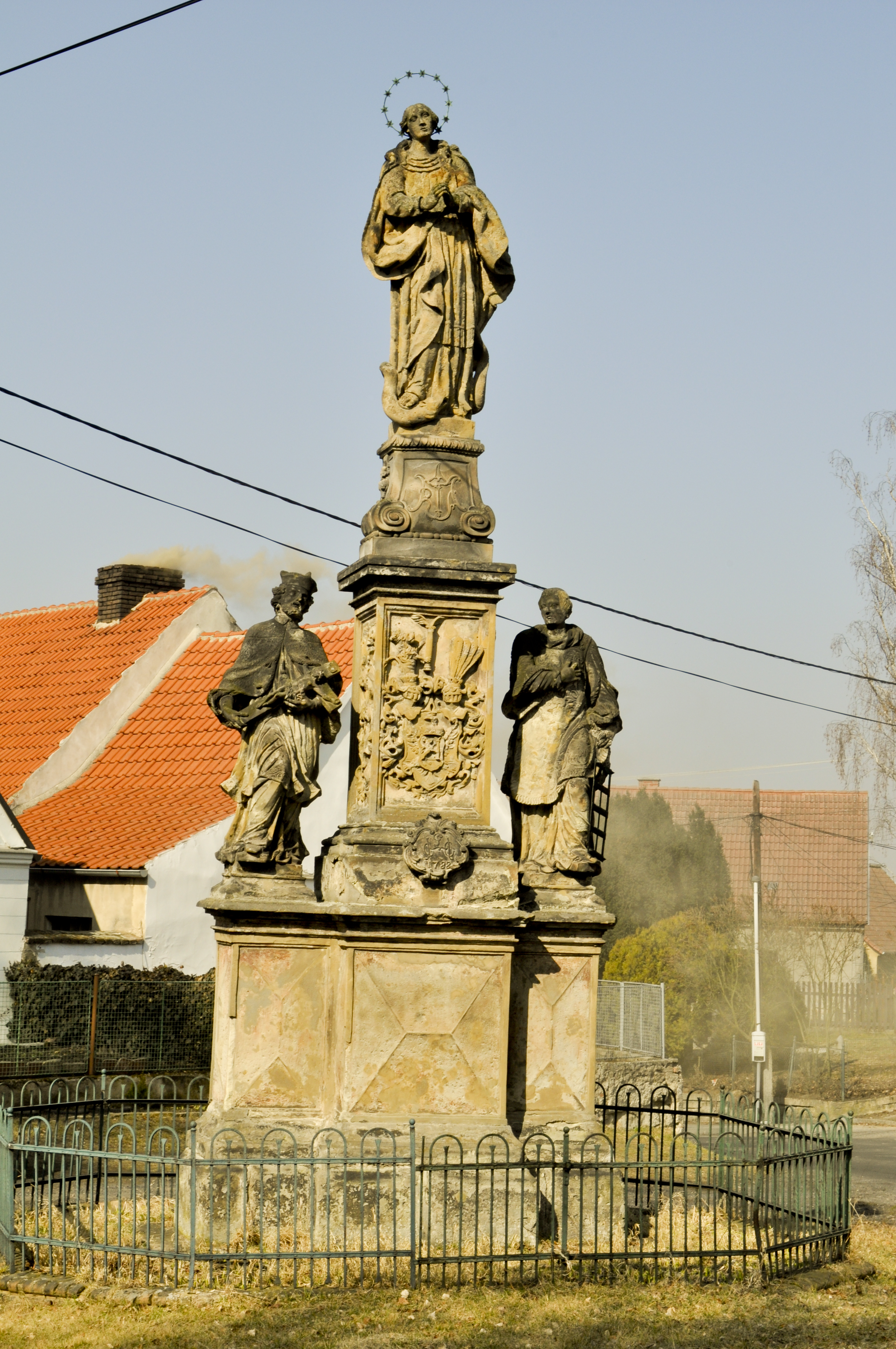 Statue of Virgin Mary with Saint Wenceslas and Saint Adalbert, Chcebuz, Ústí nad Labem Region